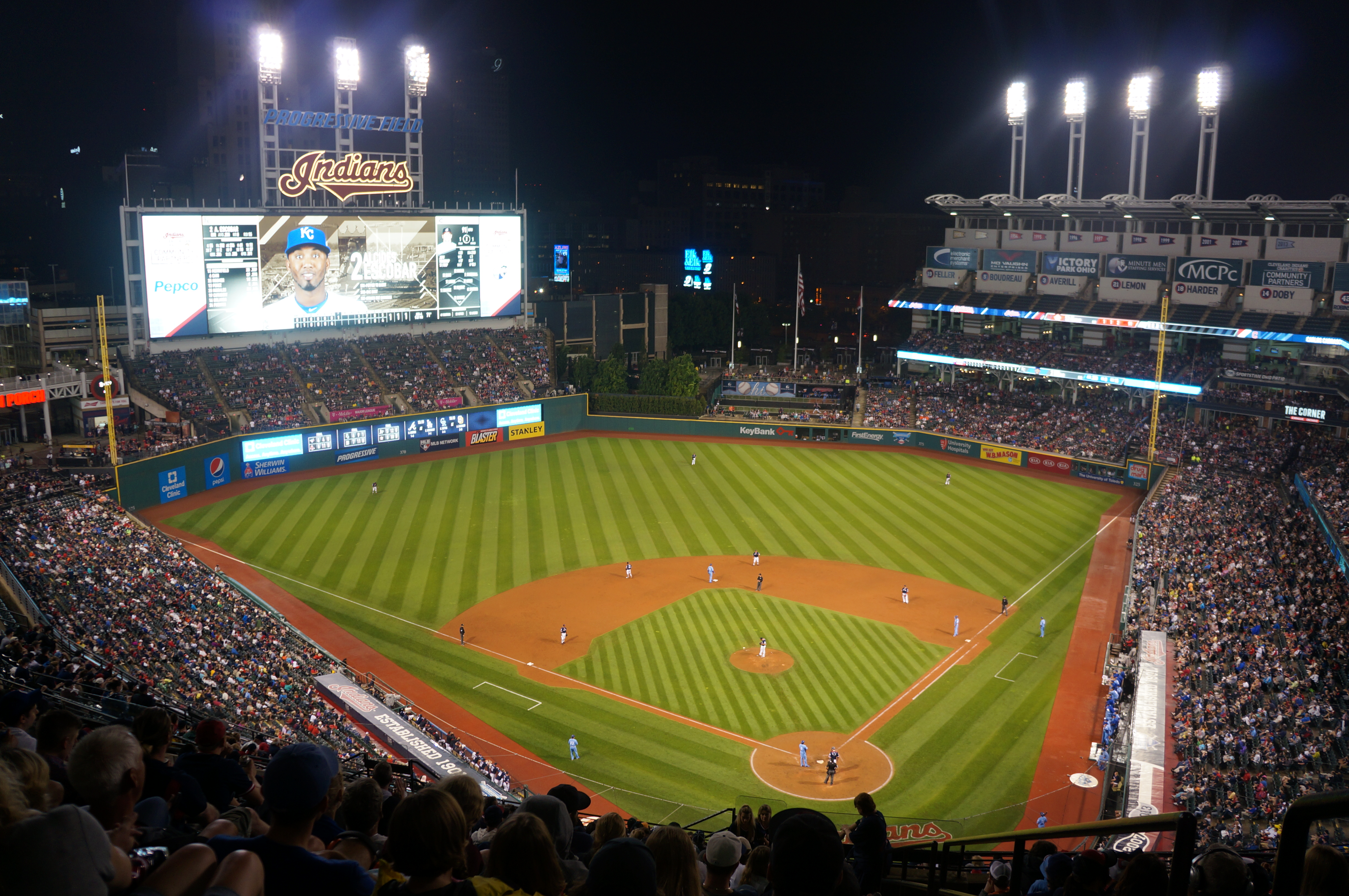 Progressive Field - Cleveland Ohio